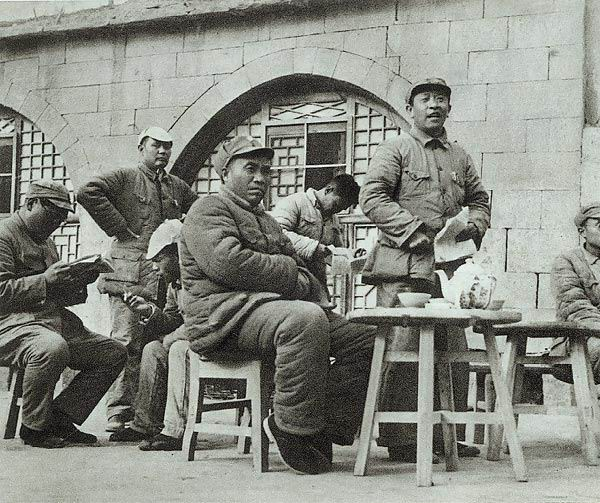 1940 Zhu De in Yan'an. 1940年10月，朱德总司令参加了在延安王家坪召开的军工生产会议。自左至右：李涛、叶剑英、朱德、叶季壮、李强。